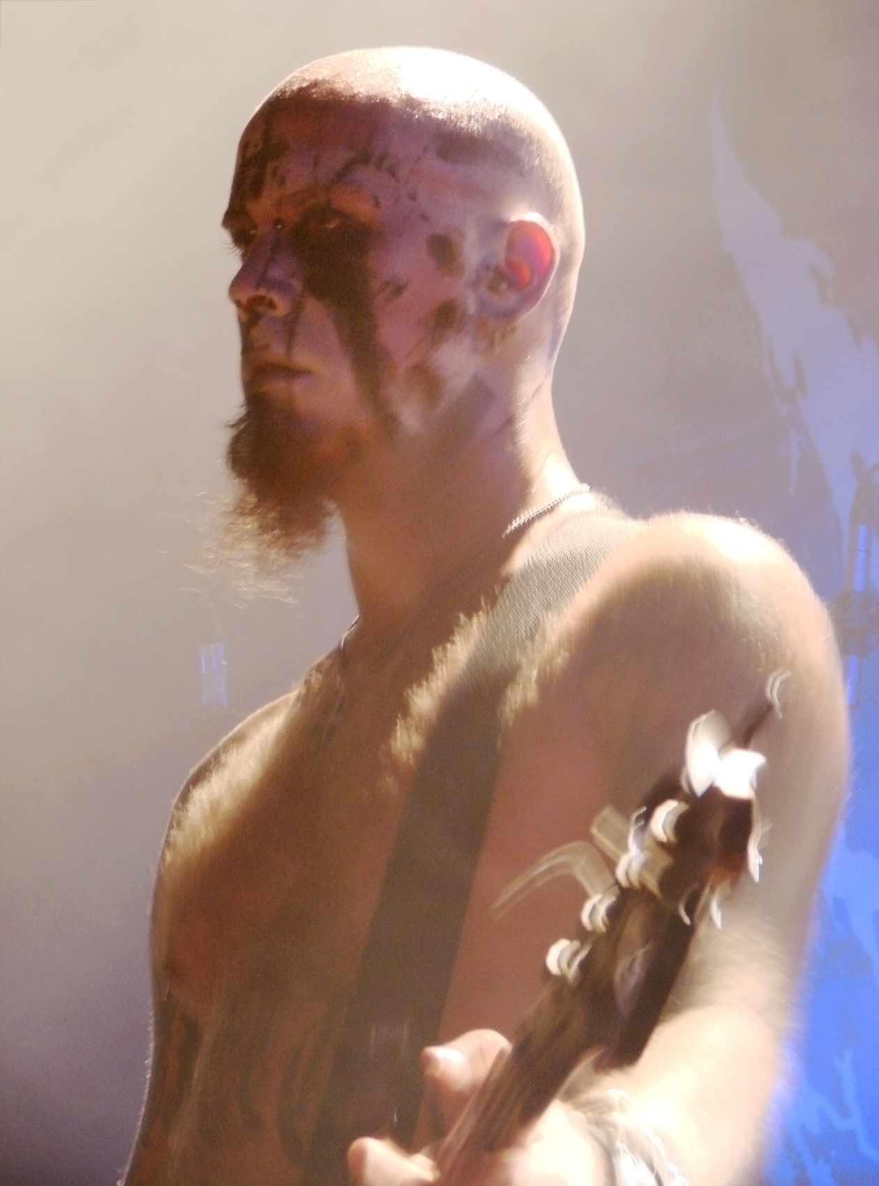 Horna, a Finnish Black Metal band, during a concert in Paris.